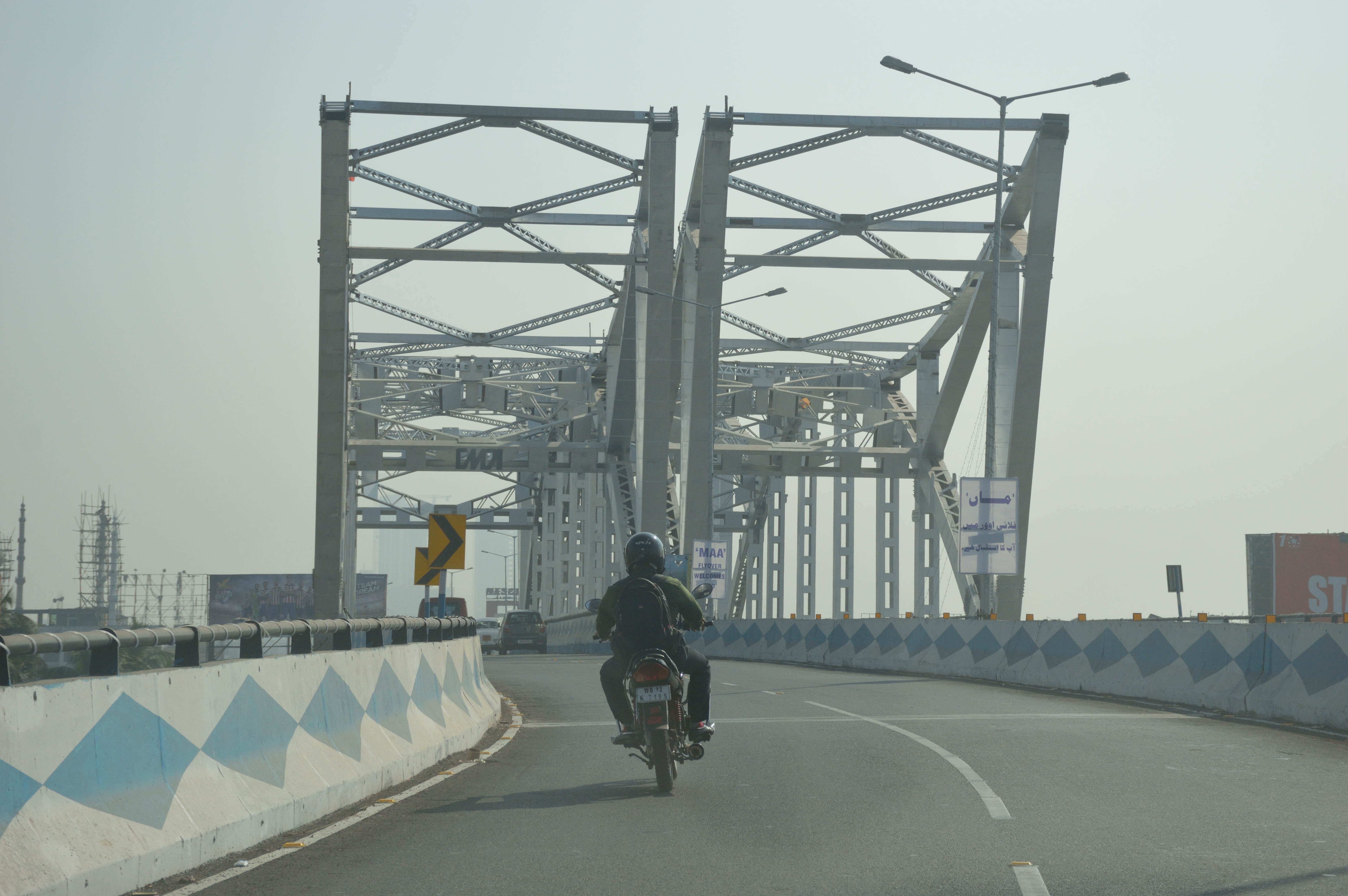 The Parama Island Flyover (officially Maa) is 4.5-kilometre-long flyover in Kolkata. It was opened on Thursday, 12 October 2015 at 12 Noon, by the WB Chief Minister Mamata Banerjee. It took twelve years to build.